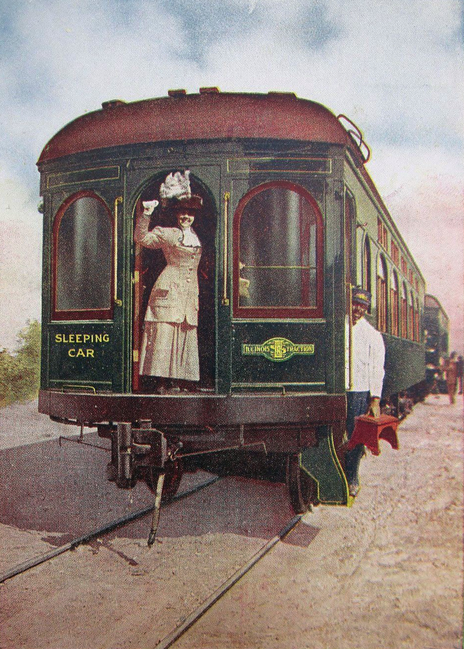 Postcard photo from the Illinois Traction System. The woman is waving from their sleeping car which was used on the St. Louis - Peoria route. The line billed itself as the only interurban offering sleepers and provided a free coffee and rolls breakfast in the morning.